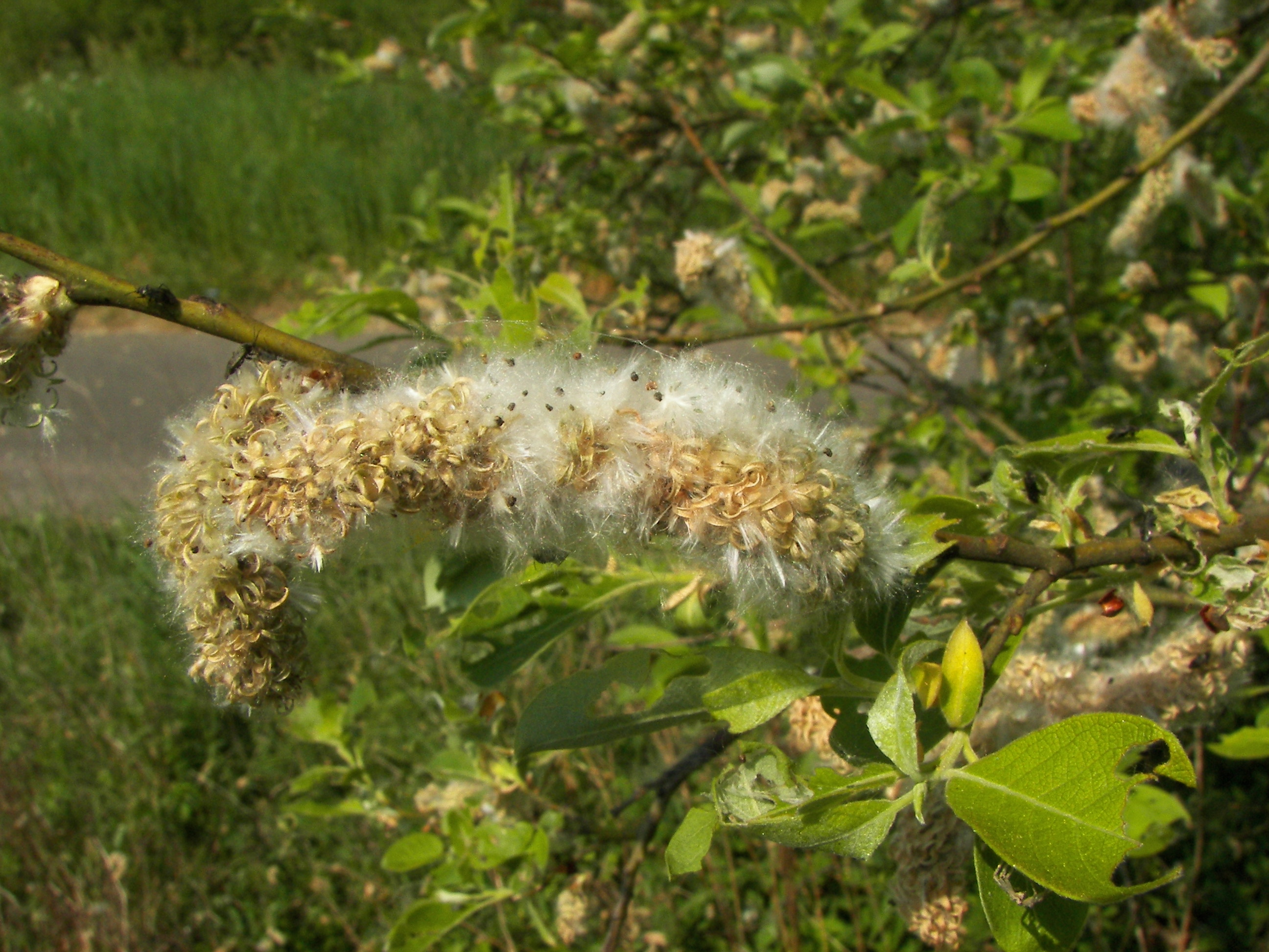 Goat Willow (Salix caprea), female catkins, Location: Marburg, Hesse, Germany